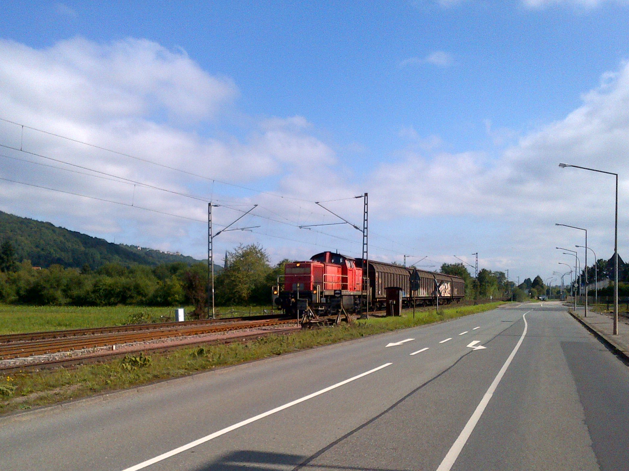 A type 294 shunting engine with four box wagons in Trier-Euren, Germany. The wagons are loaded with tobacco for Japan Tobacco International.